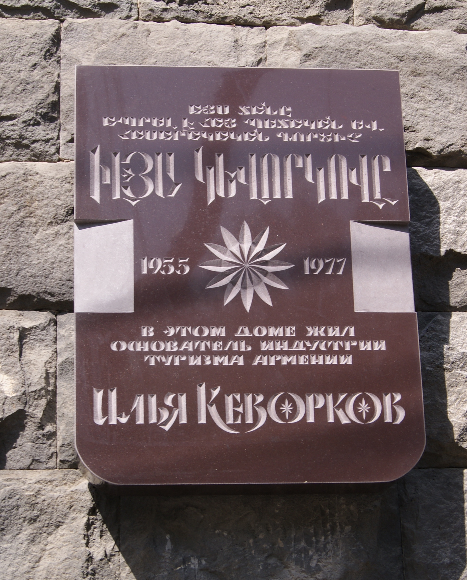 Ilya Kevorkov's plaque